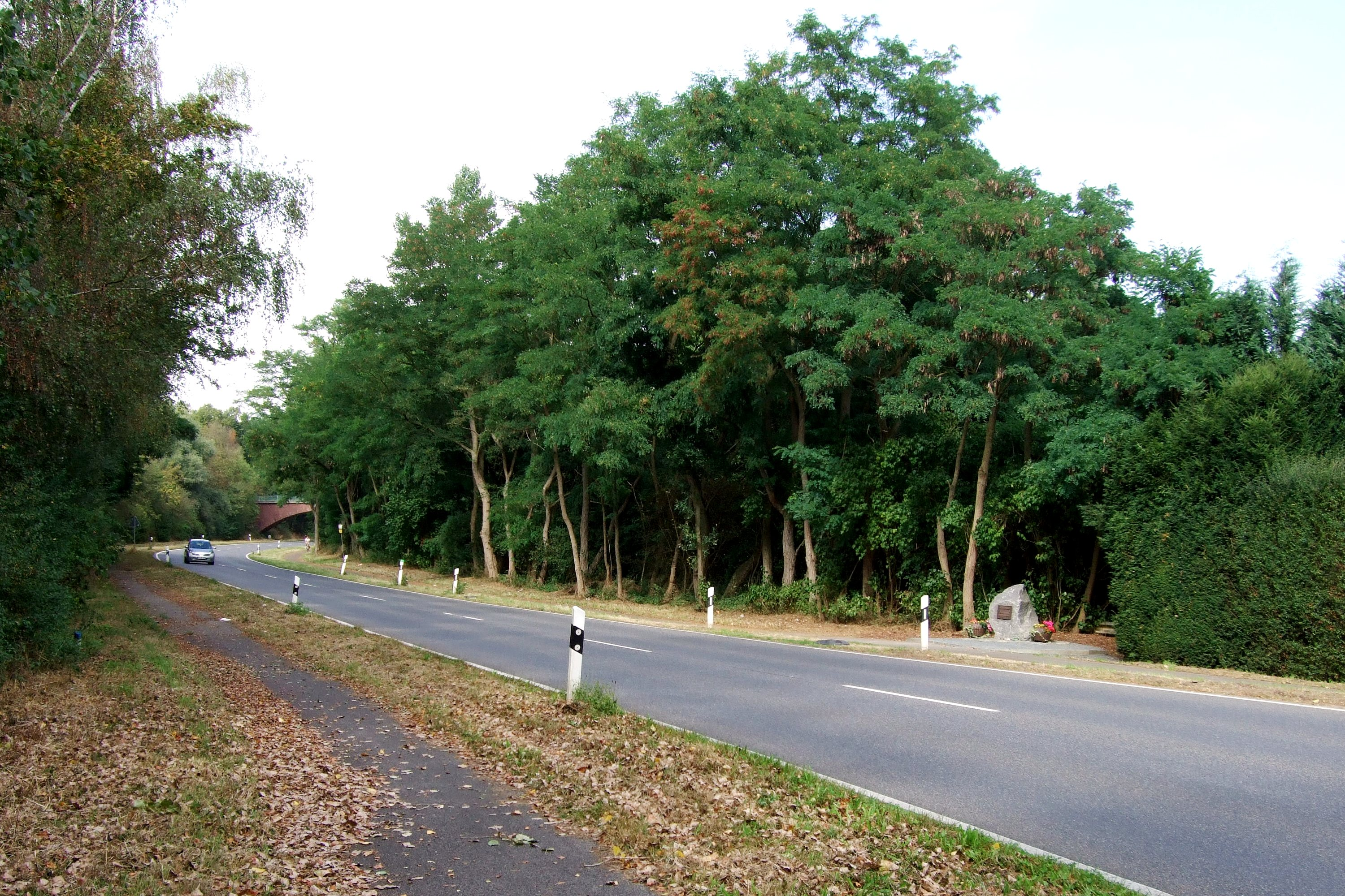 Place of the 1952 Helmut Niedermayr accident with new memorial stone at the former racing track Grenzlandring at Wegberg in Germany.